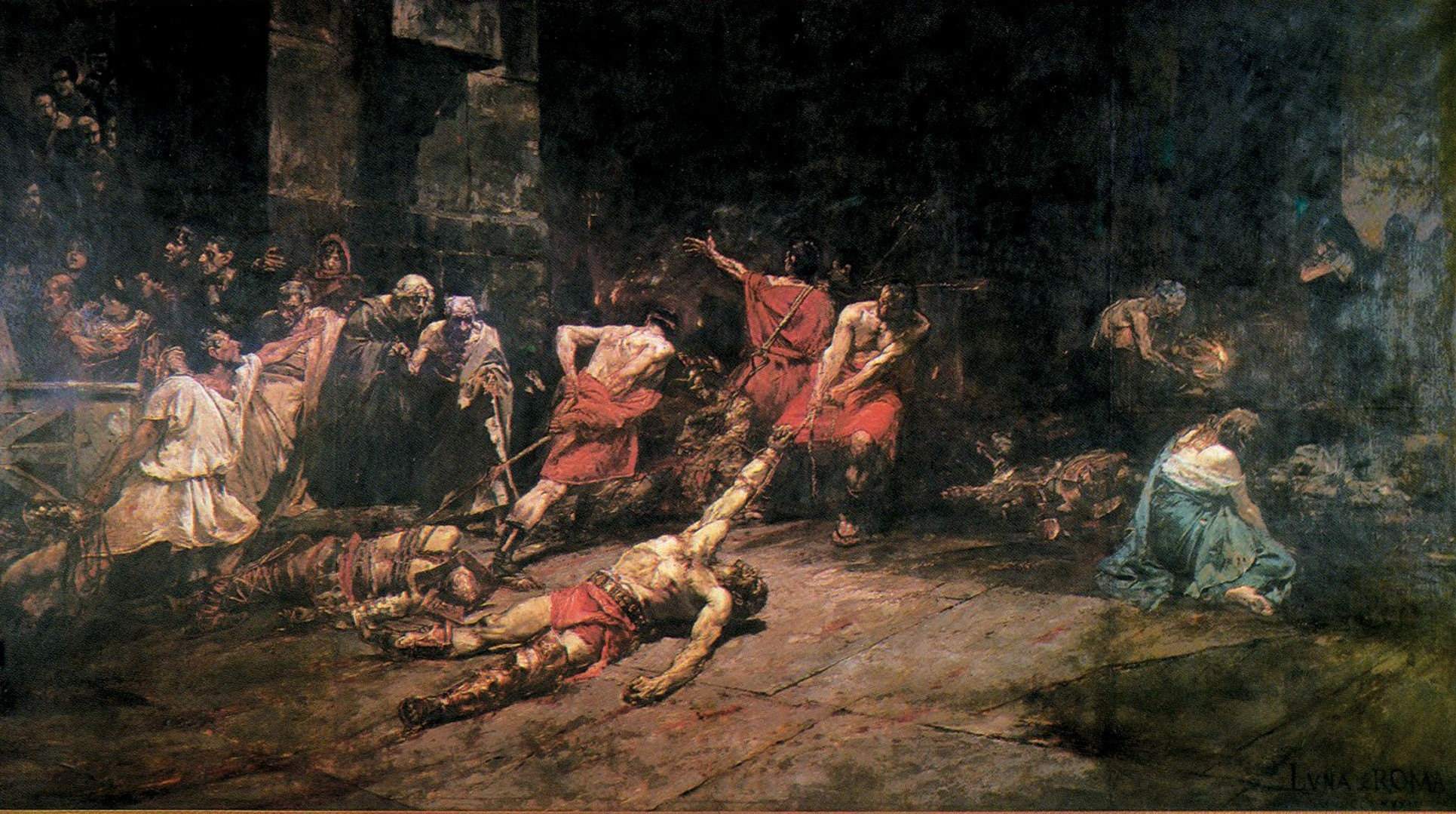 Spoliarium